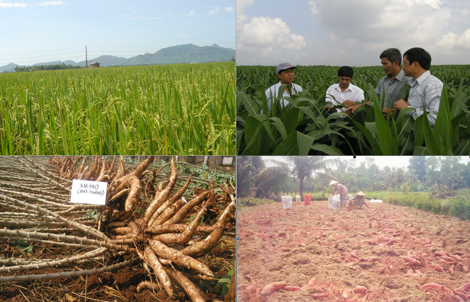 Rice, maize, cassava & sweet potatoes are the four main food crops in Vietnam